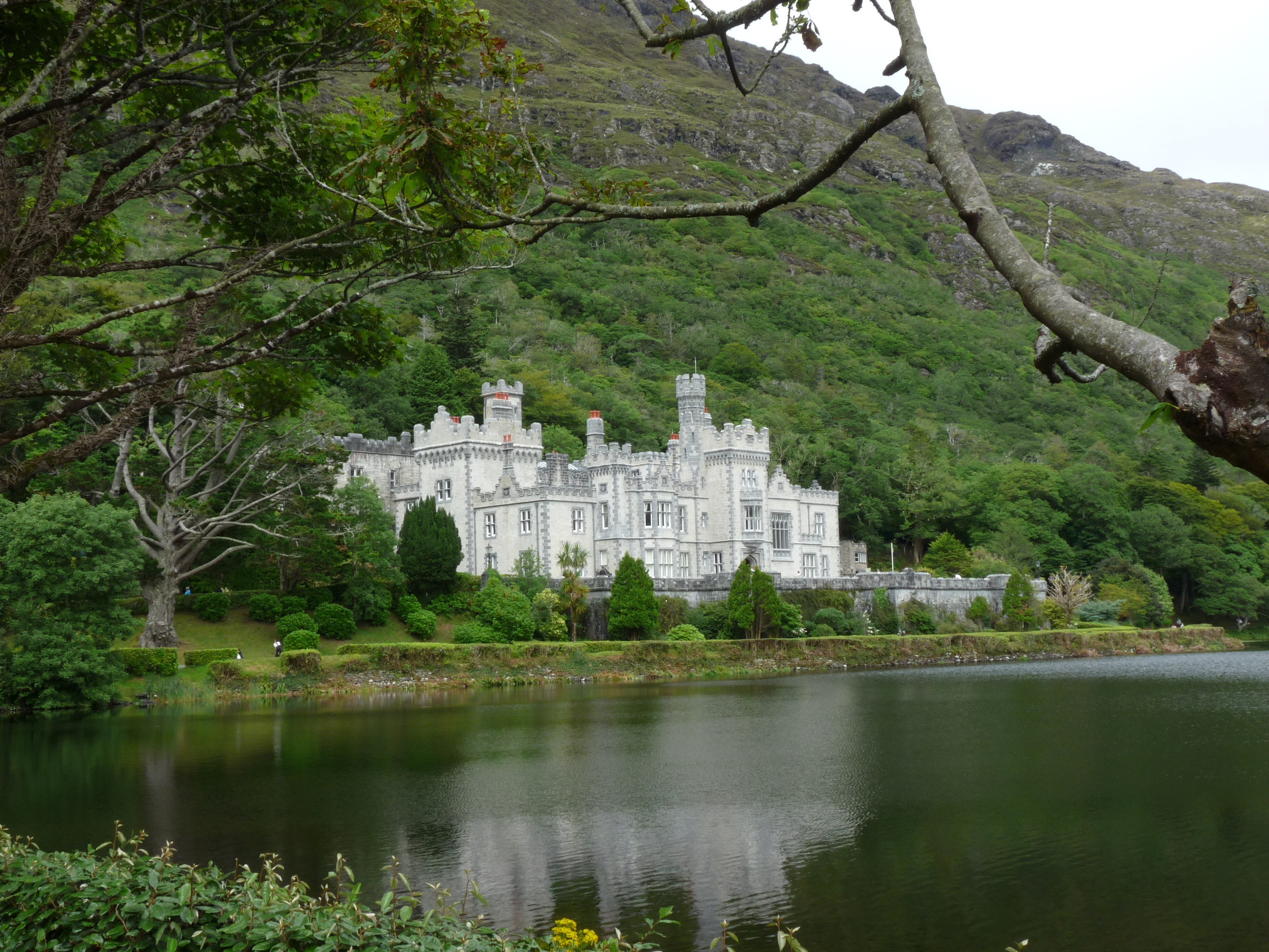 County Galway, Kylemore Abbey. Wikidata has entry Q132220 with data related to this item.